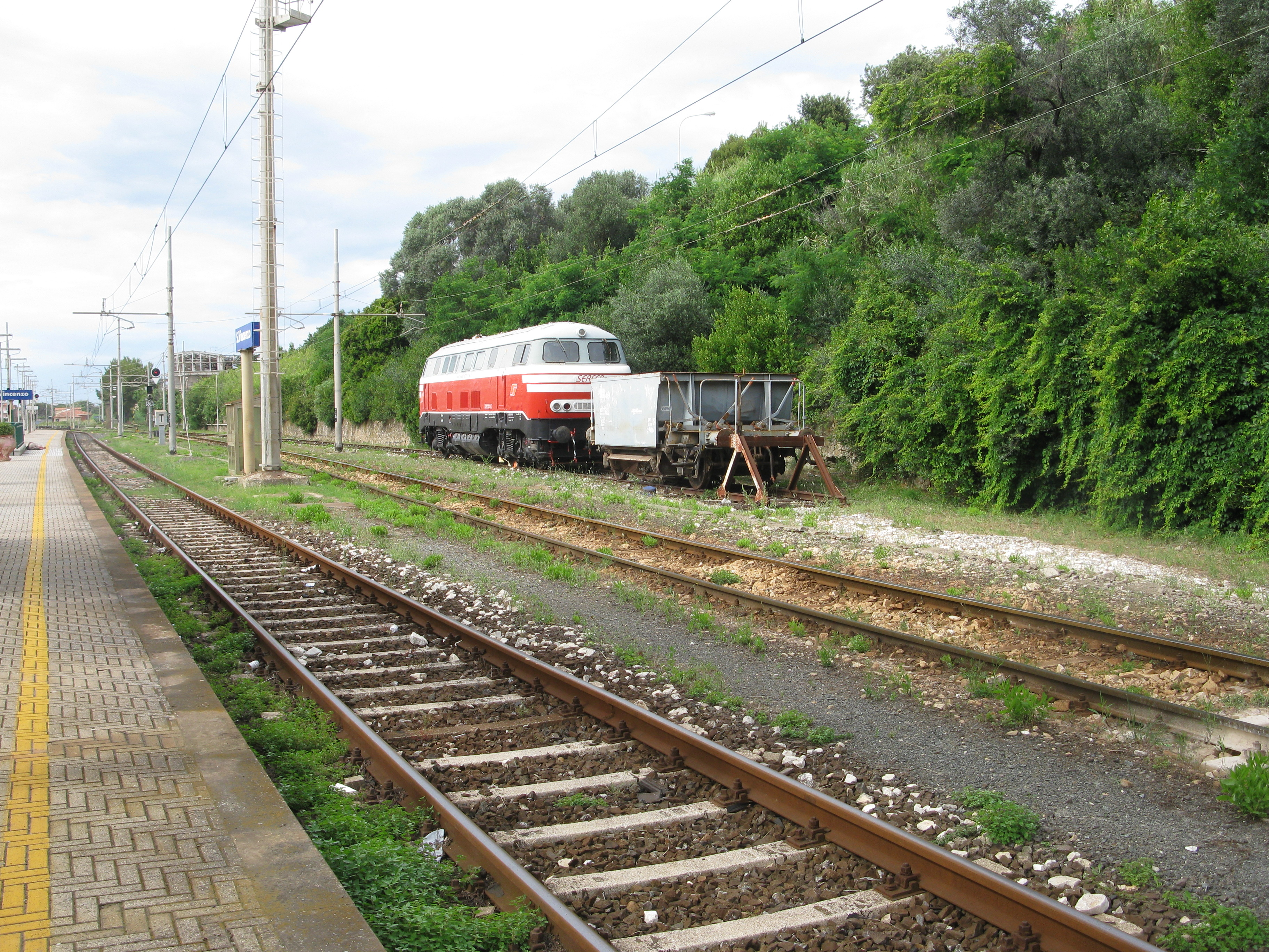 San Vincenzo railway station, fright yard